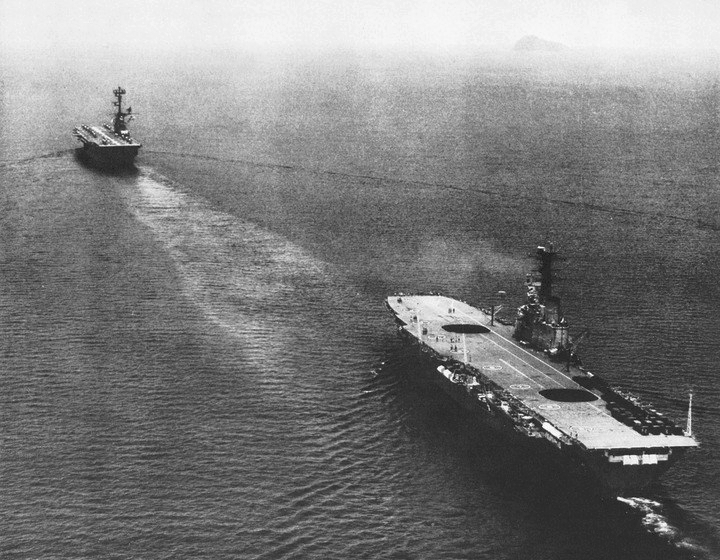 The Royal Australian Navy helicopter carrier HMAS Sydney (R17), foreground, and the U.S. Navy helicopter carrier USS Valley Forge (LPH-8) underway during a SEATO-excercise off the Philippines in May 1964.